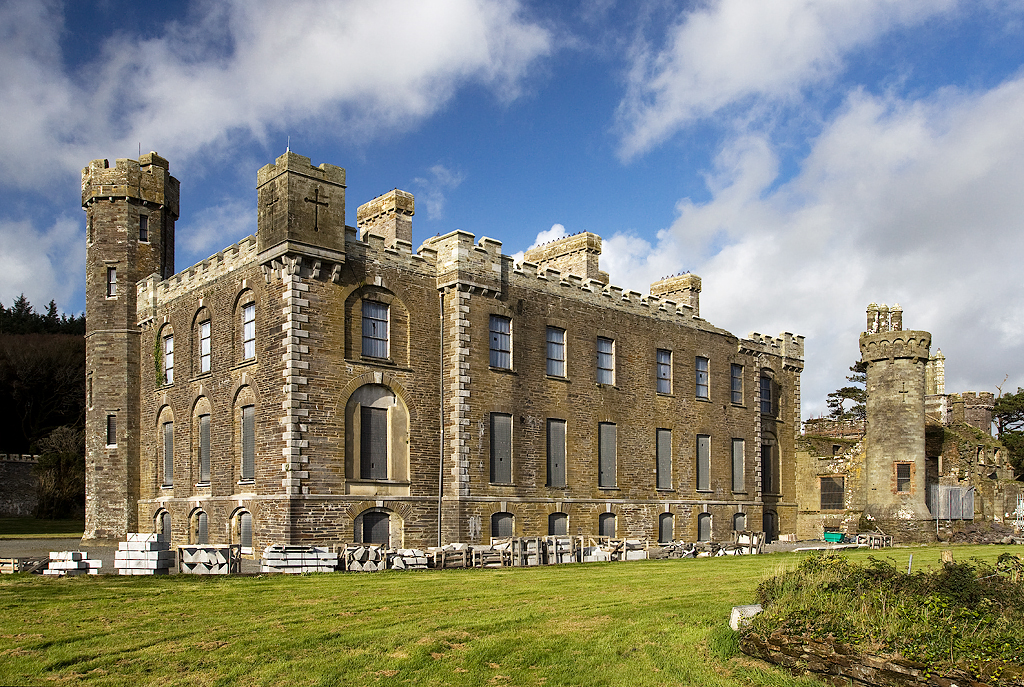 Castlefreke, Rosscarbery - revisited